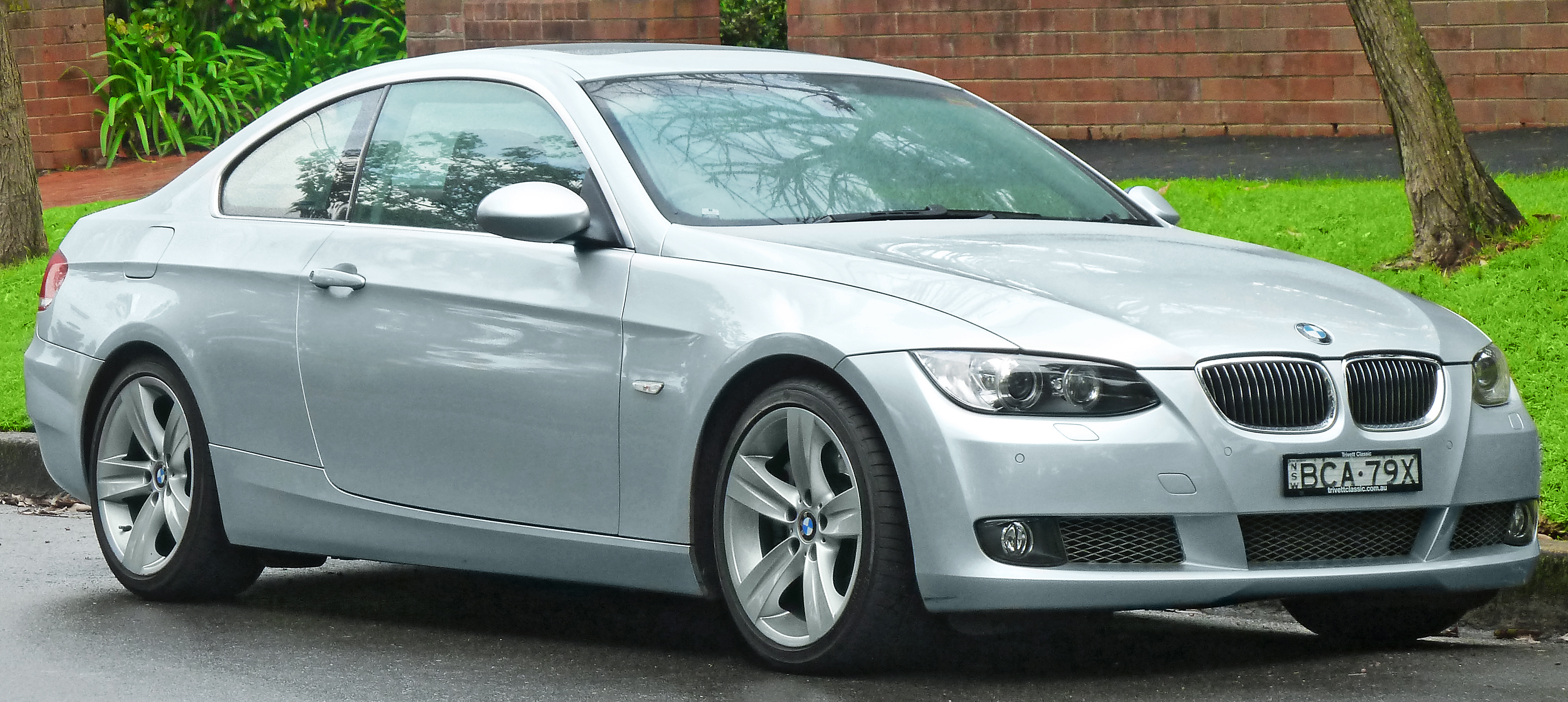 2006–2010 BMW 335i (E92) coupe. Photographed in Roseville, New South Wales, Australia.